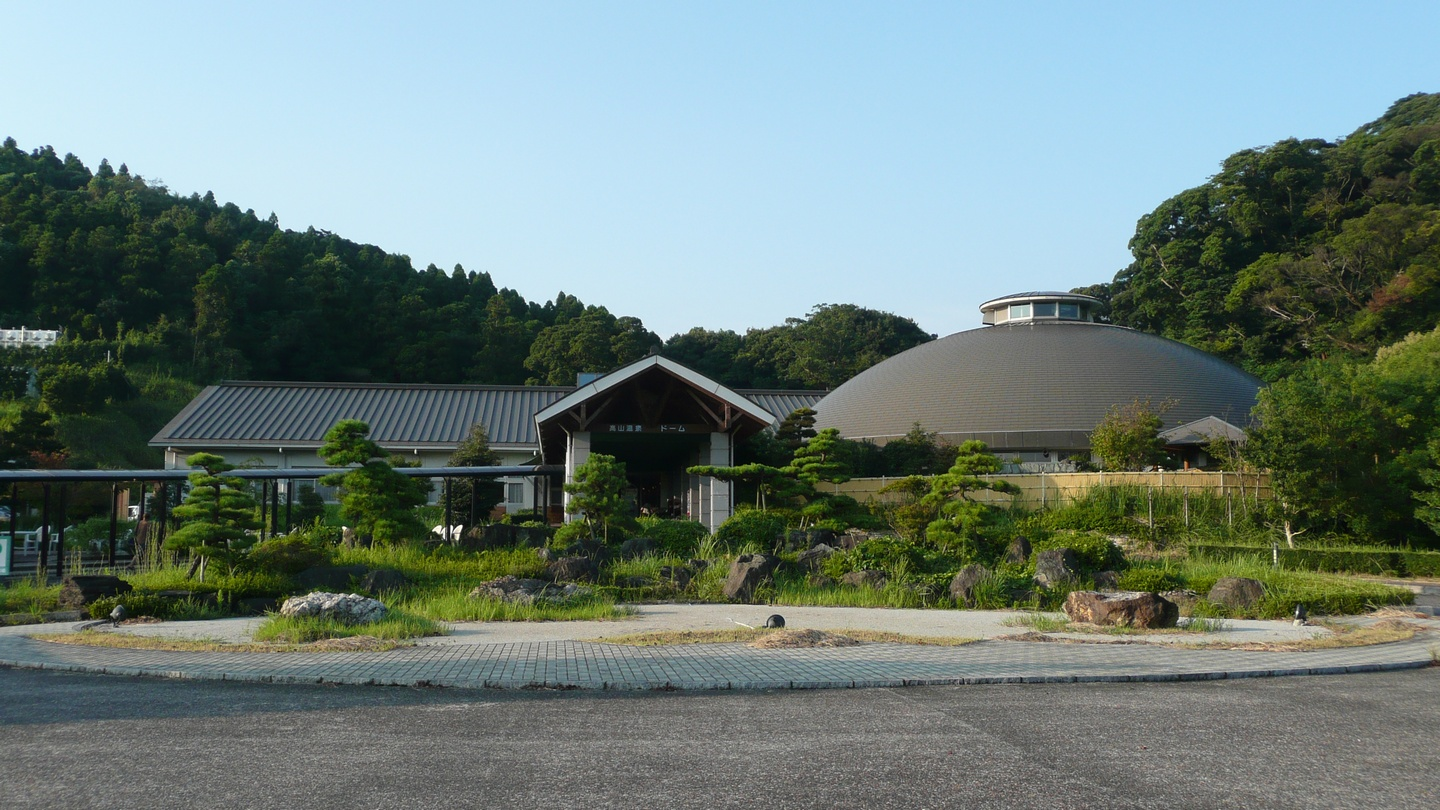 Koyama Onsen Dome (Kimotsuki Town, Kagoshima, Japan)